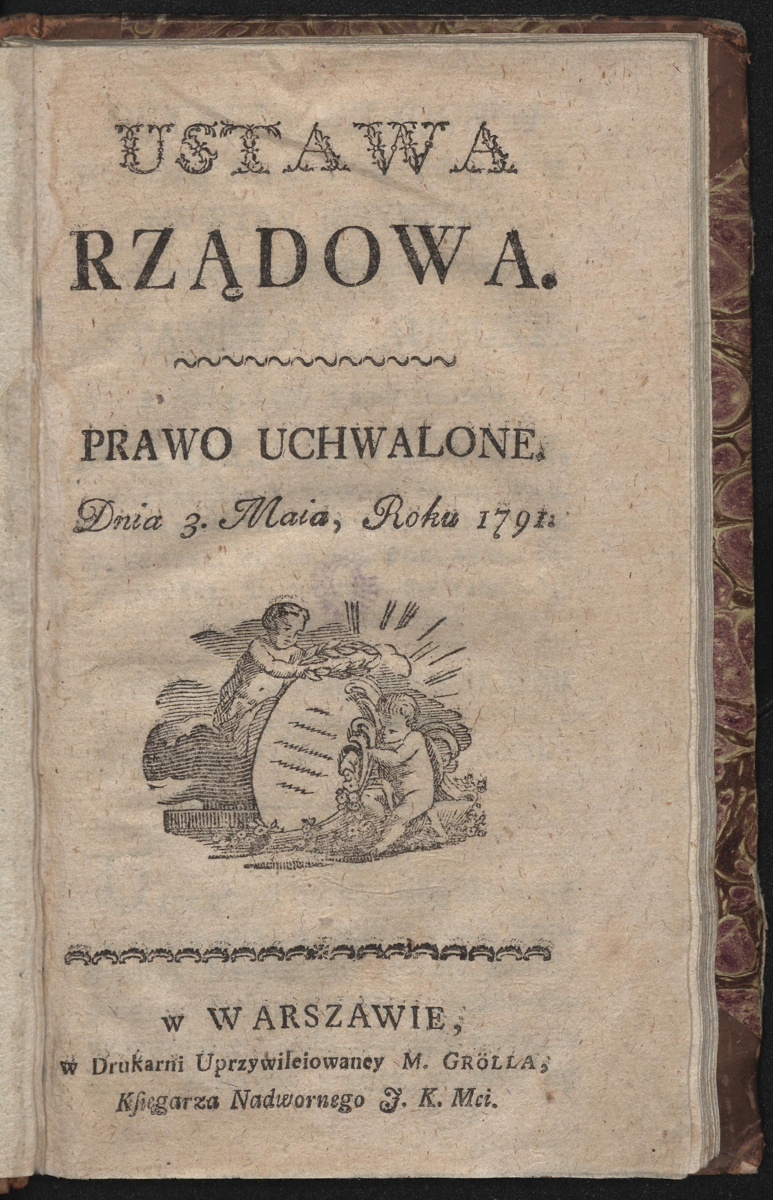 Polish-Lithuanian Commonwealth's Constitution of the 3rd May 1791 in Polish language - printed in Warszawa by Michał Gröll. 1791 AD